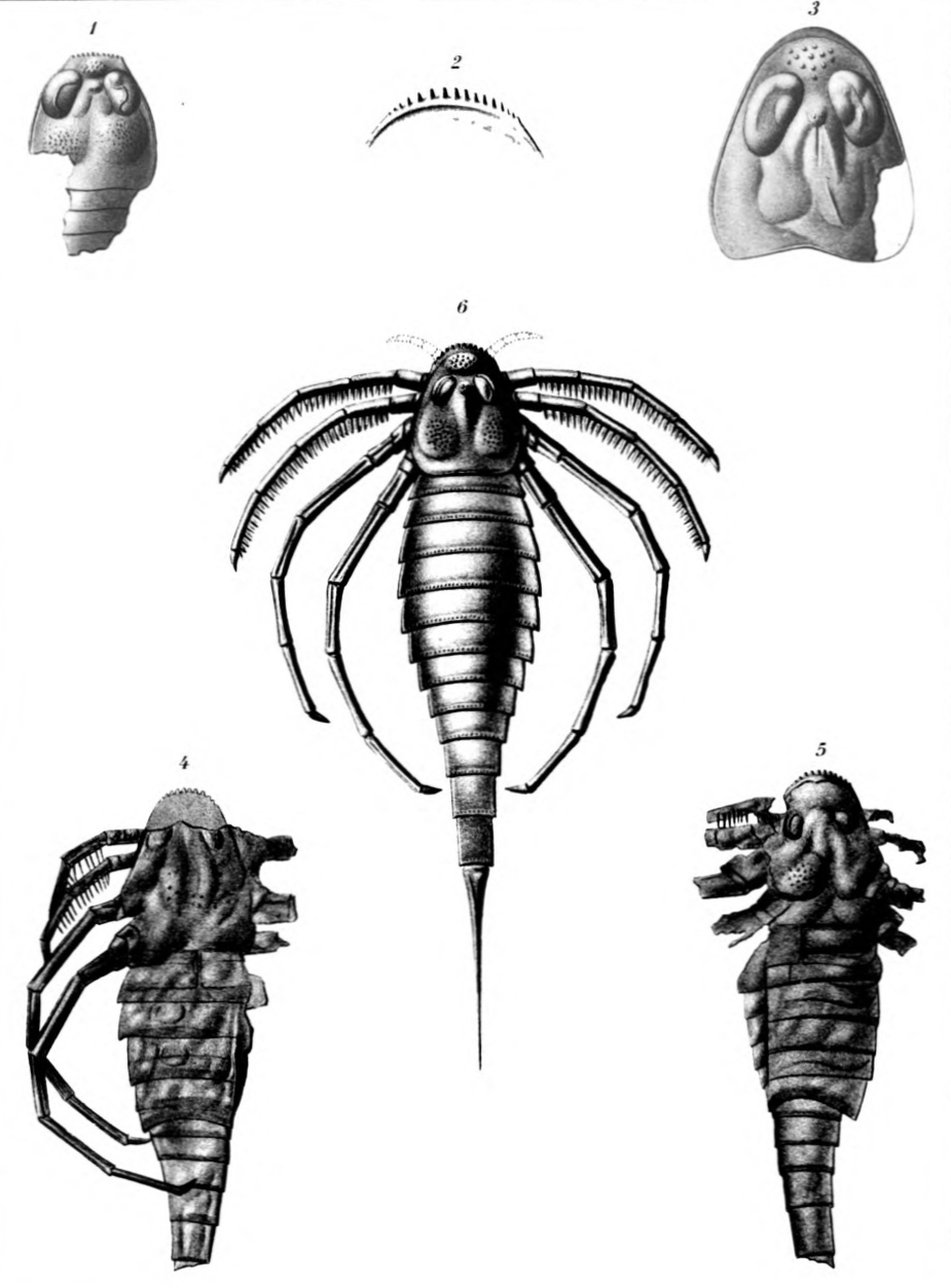 Ctenopterus (Stylonurus) cestrotus Clarke Page 286 See plate 50 1 Carapace with fragments of tergites. Holotype [N. Y. State Mus. Bul. 107, pl. 3, fig. 10]. Shows denticulated frontal margin, visual area of compound eyes and ocelli. × 3 2 Denticulate margin and doublure of ventral side. × 3 3 Carapace showing normal outline but with the frontal denticulations not retained. × 3 4 Dorsal view of specimen with four legs and part of the abdomen. Paratype. Natural size 5 Counterpart of preceding showing the denticulate frontal margin and eyes. Paratype. Natural size 6 Restoration of this species. Natural size Horizon and locality. Shawangunk grit. Otis ville, Orange co., N. Y. The originals are in the State Museum The Eurypterida of New York. Volume 2. New York State Museum Memoir 14, plate 49